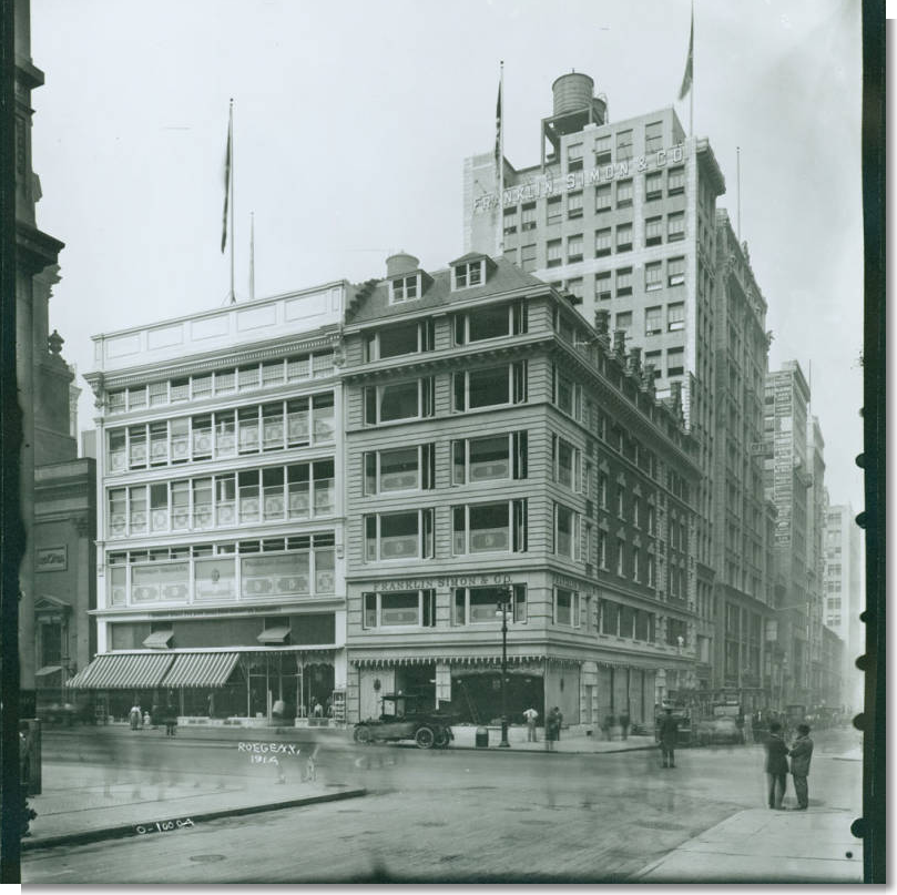 Photograph of Franklin Simon & Co., Fifth Avenue New York City. Circa 1915.